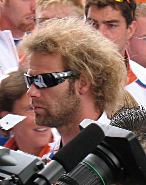 Olympic contestant Robert de Wilde (BMX) at the Welcome Home event organised at the Amsterdam Olympic stadium on August 25, 2008. Cropped and sharpened version of